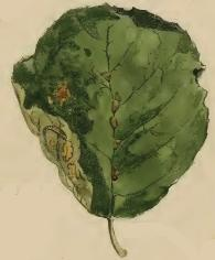 Stainton’s Natural History of the Tineina (1855–1873): Bucculatrix cidarella alder leaf mined and gnawed